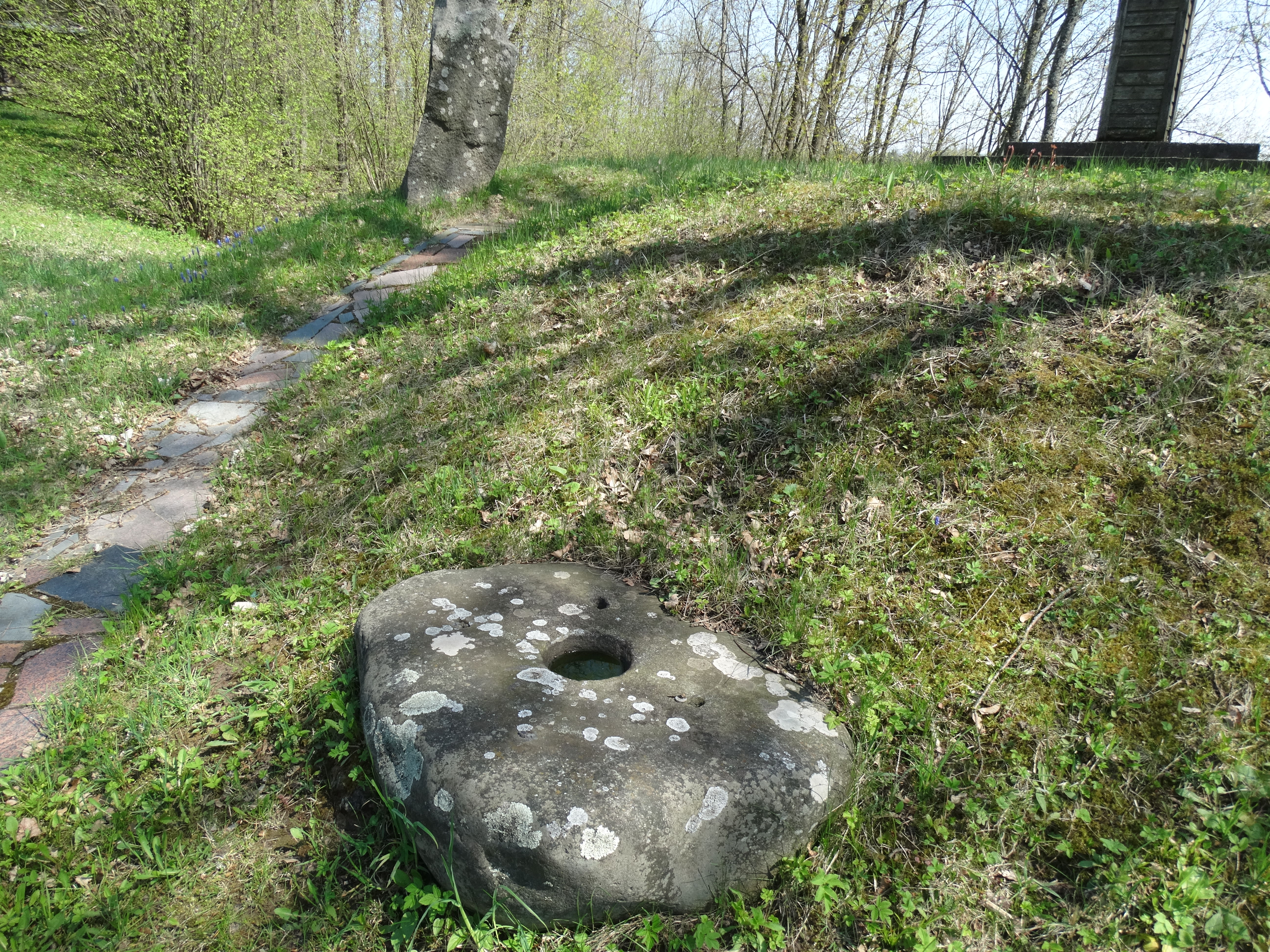 Liukonys, Širvintos District, Lithuania